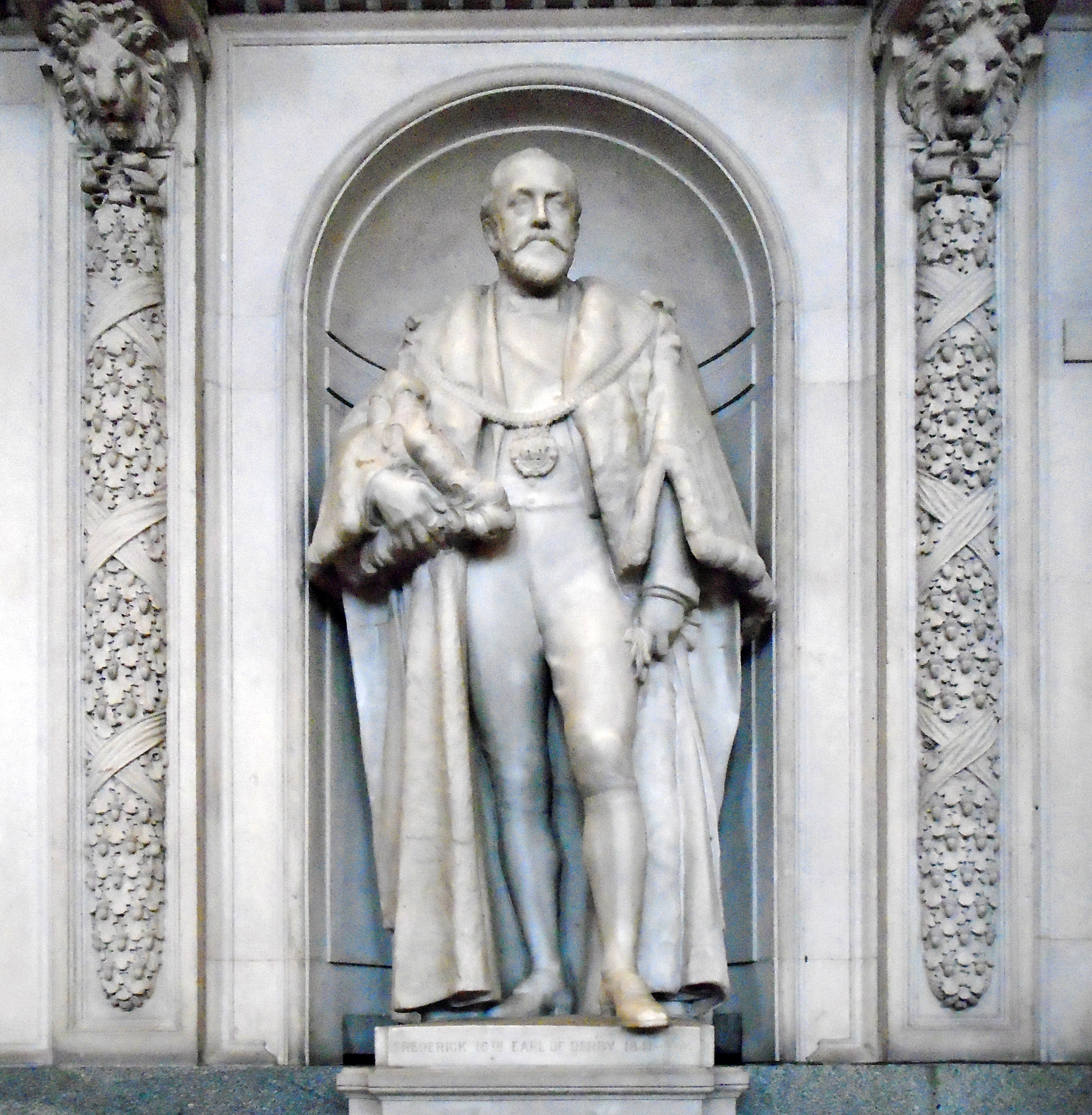 Statue in some context